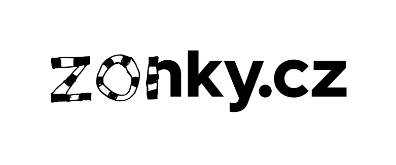 Logo of a company Zonky.cz